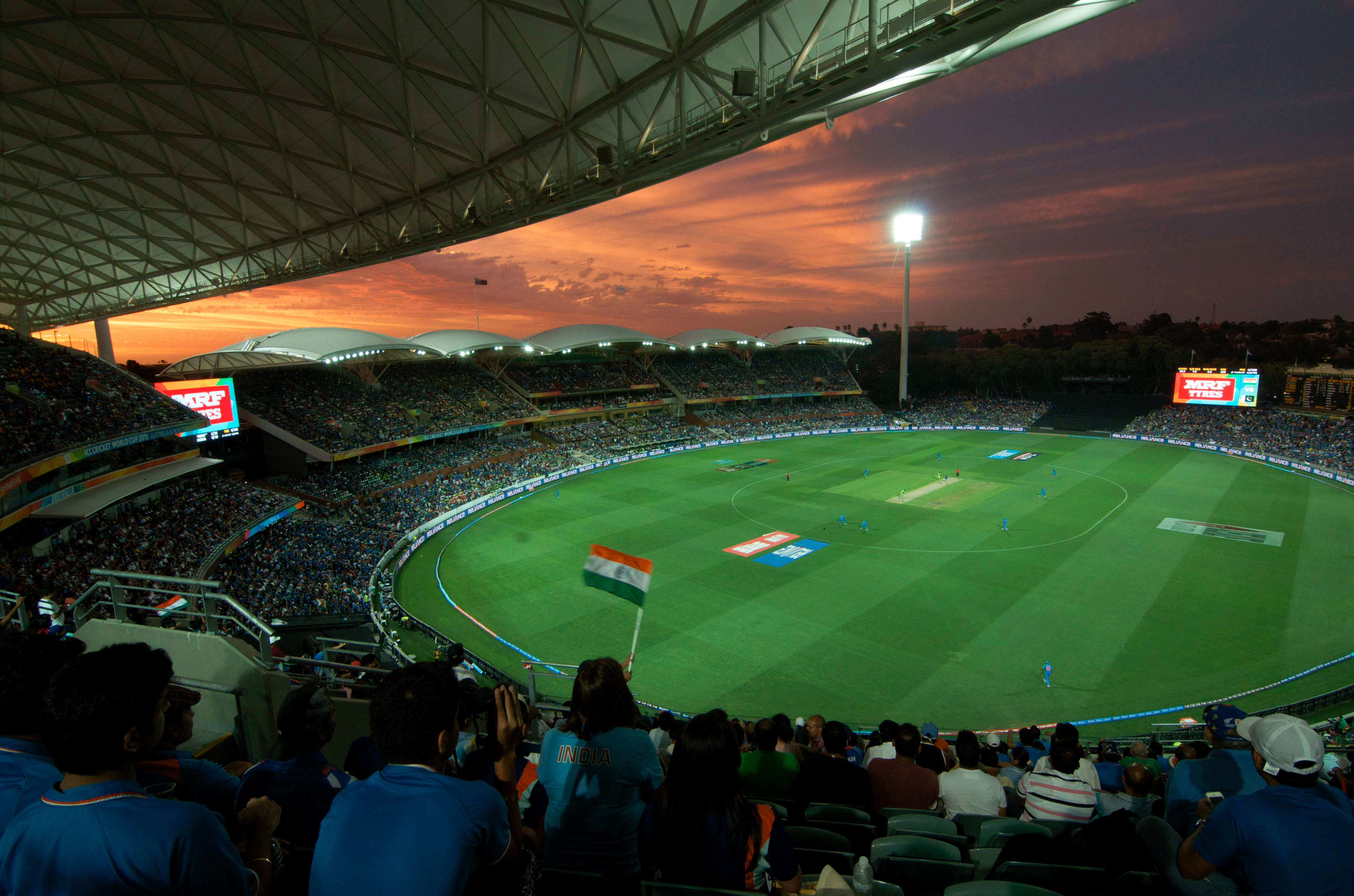 The South Australian skies turned a magical red on the day that India and Pakistan opened their account at the 2015 Cricket World Cup - at the new renovated, and beautiful Adelaide Oval Ground.